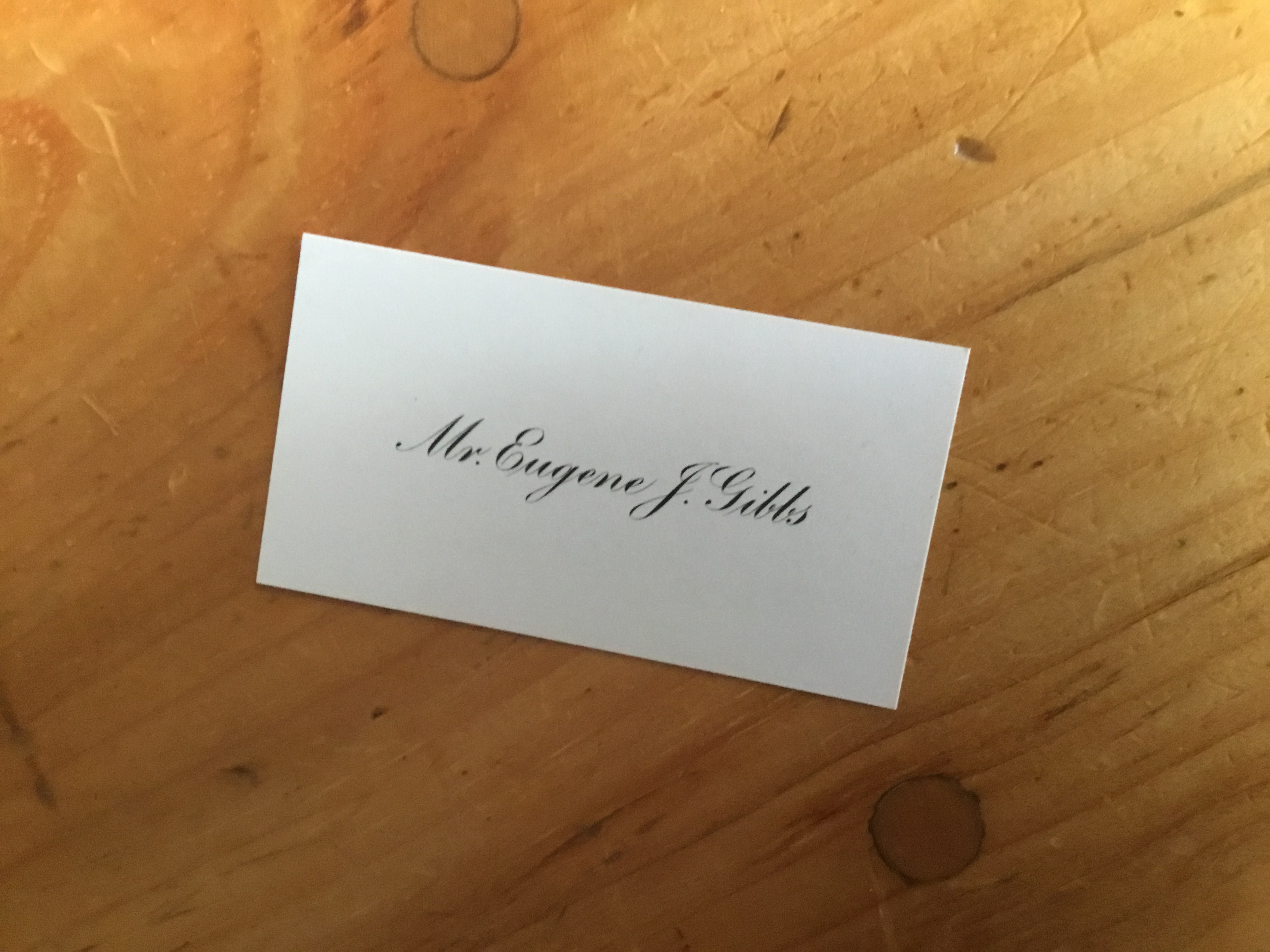 This card would have been shown as a introduction by Mr. Gibbs. Comes from the collection of his Great-Great Grandson, the author.